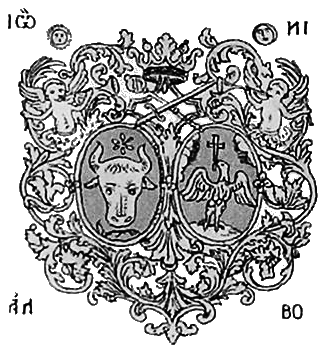 Coat of arms of Moldova and Wallachia during Nicolae Mavrocordat's reign